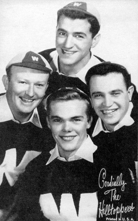 Photo of the 1950s vocal group, The Hilltoppers. Will need no notice ad license at Commons. Note that the uploaded photo is larger copy of the one seen in the Dot Records ad. Dot Records didn't mark the ad as copyrighted; the copyright for Billboard would not apply to the ad. There are no copyright marks on the ad. US Copyright Office page 3-magazines are collective works (PDF) "A notice for the collective work will not serve as the notice for advertisements inserted on behalf of persons other than the copyright owner of the collective work. These advertisements should each bear a separate notice in the name of the copyright owner of the advertisement."